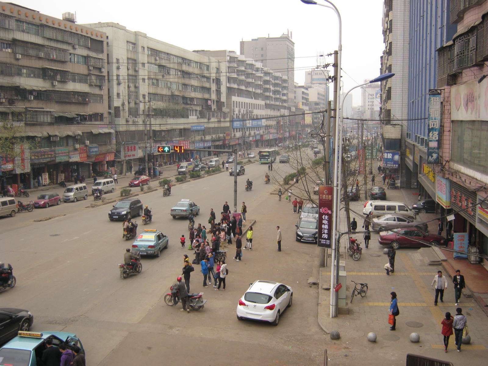 East Avenue (东大路)